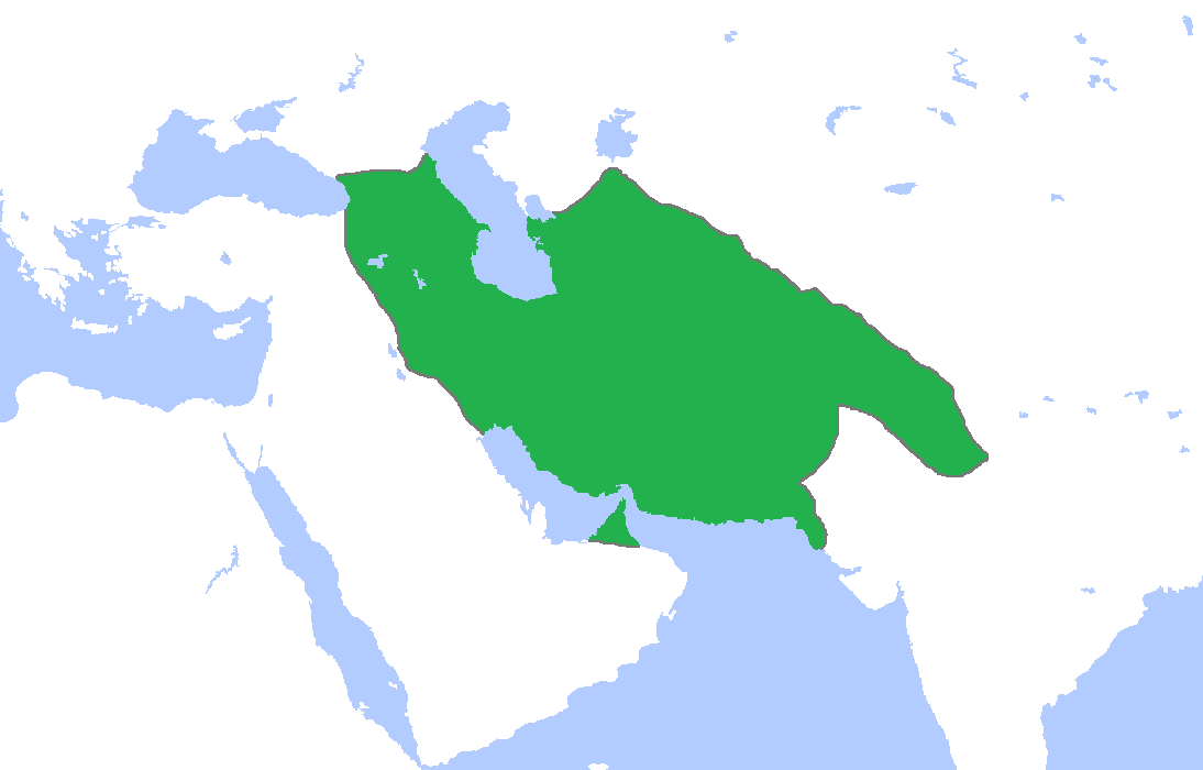 Map of the Afsharid Empire at its greatest extent according to Iranica and other sources.